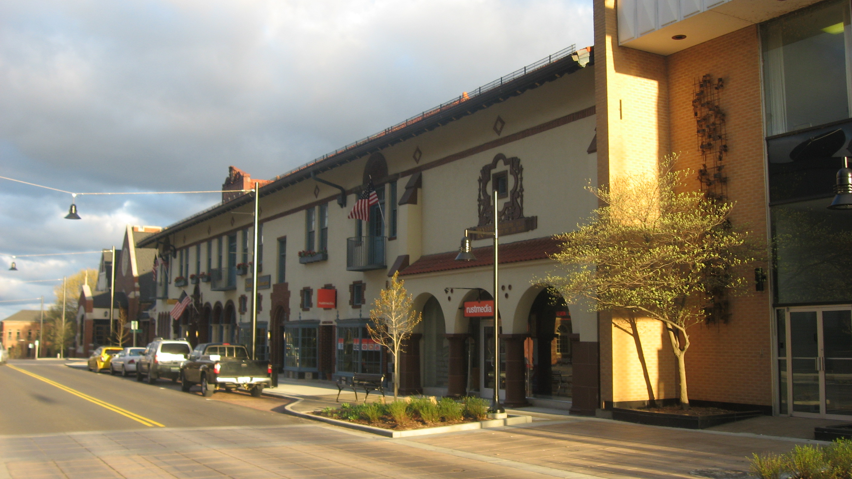 Front of the Southeast Missourian Building, located at 301 Broadway Street in downtown Cape Girardeau, Missouri, United States. Built in 1925, it is listed on the National Register of Historic Places.